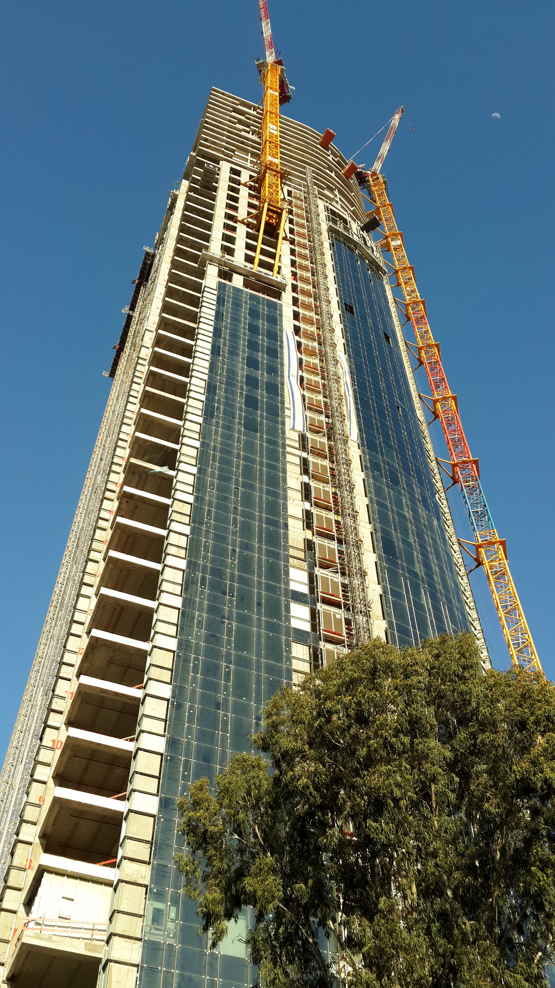 Hashachar tower, under construction, at Giv'atayim, Israel